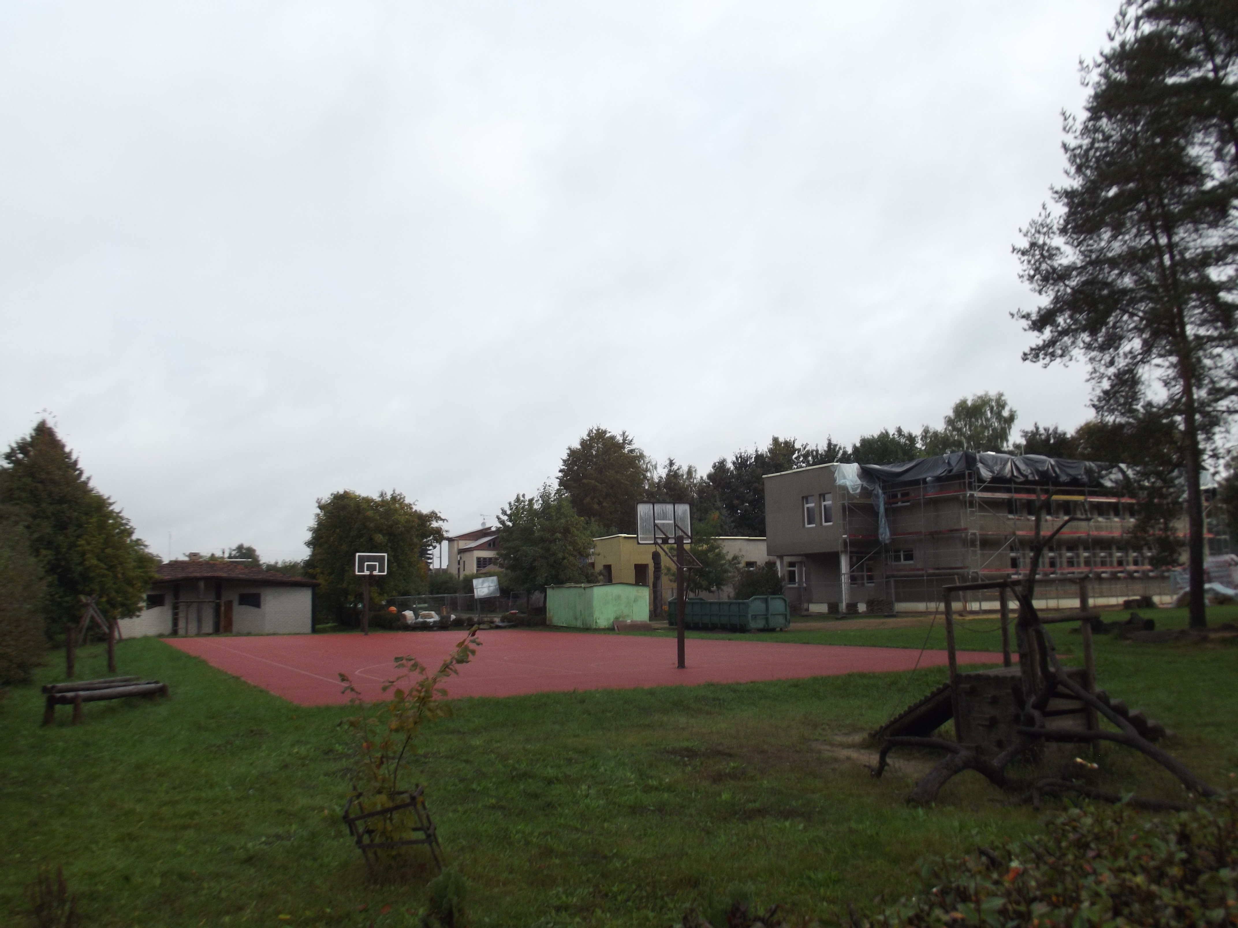 Progymnasium „Elma“ in Kazlų Rūda, Lithuania